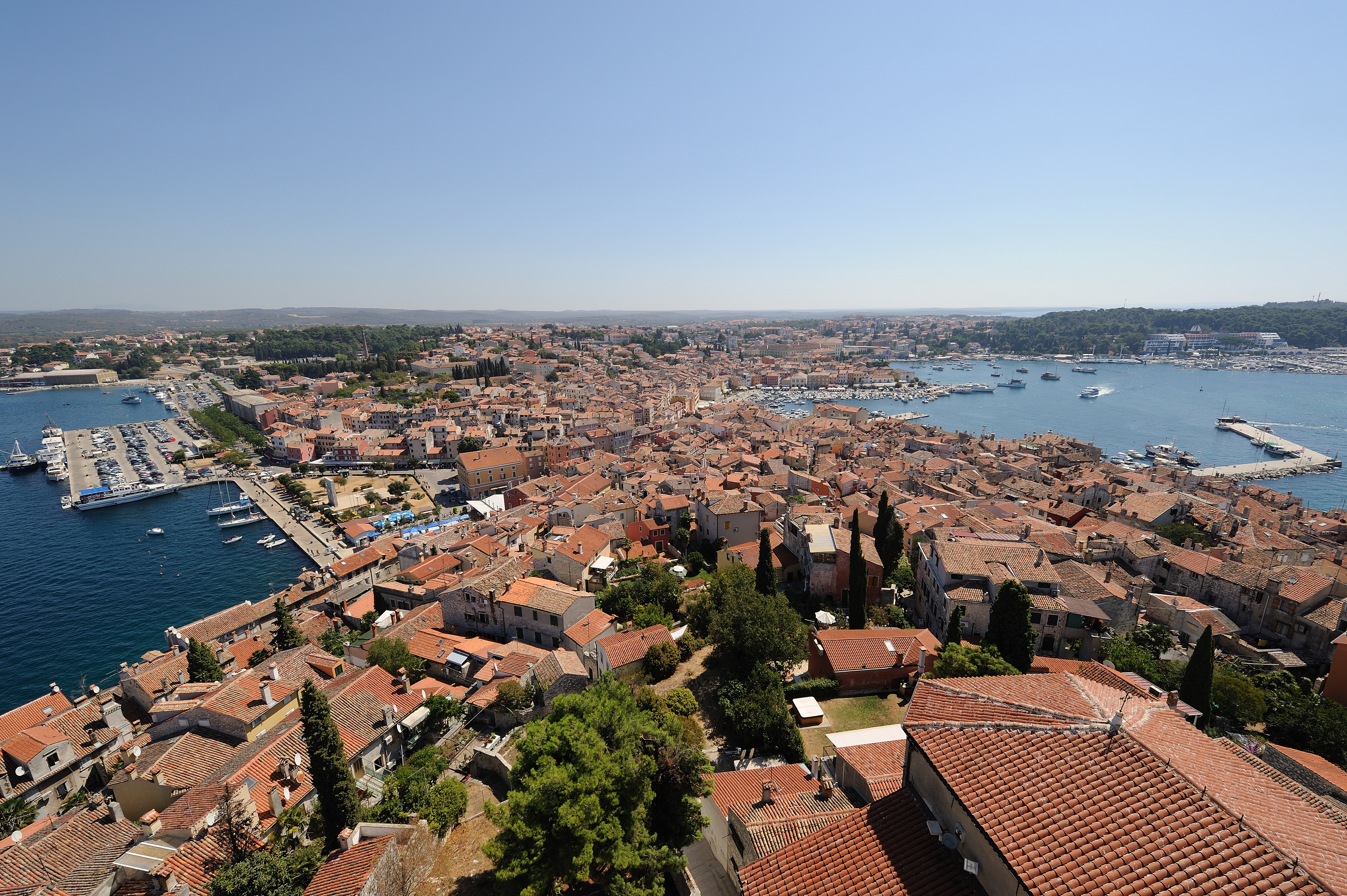 Rovinj, seen from Campanile of Sv. Eufemija church